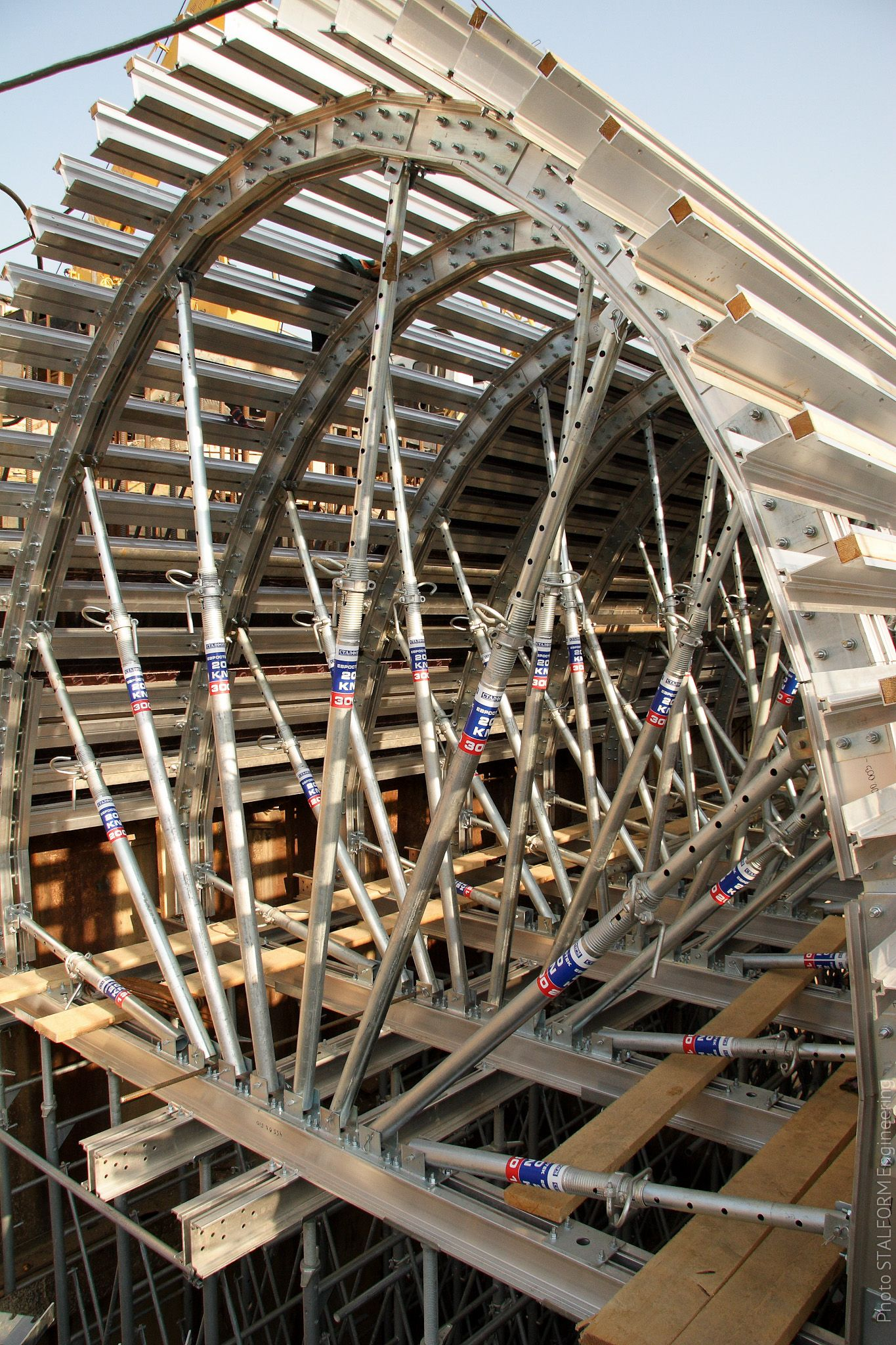 Engineered Formwork System for the vaults of Volokolamskaya metro station (Moscow, RRussia)